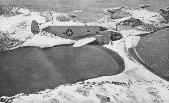 A Lockheed PV-3 Ventura in flight in early 1943. The PV-3 was the designation given to the final 27 Ventura Mk.IIs reallocated from a Royal Air Force contract. They had been assigned RAF serials AJ511 to AJ537 and were reassigned U.S. Navy BuNos. 33925 to 33951. They were assigned in October 1942 to VP-82 which operated from Newfoundland on anti-submarine patrols over the Atlantic.